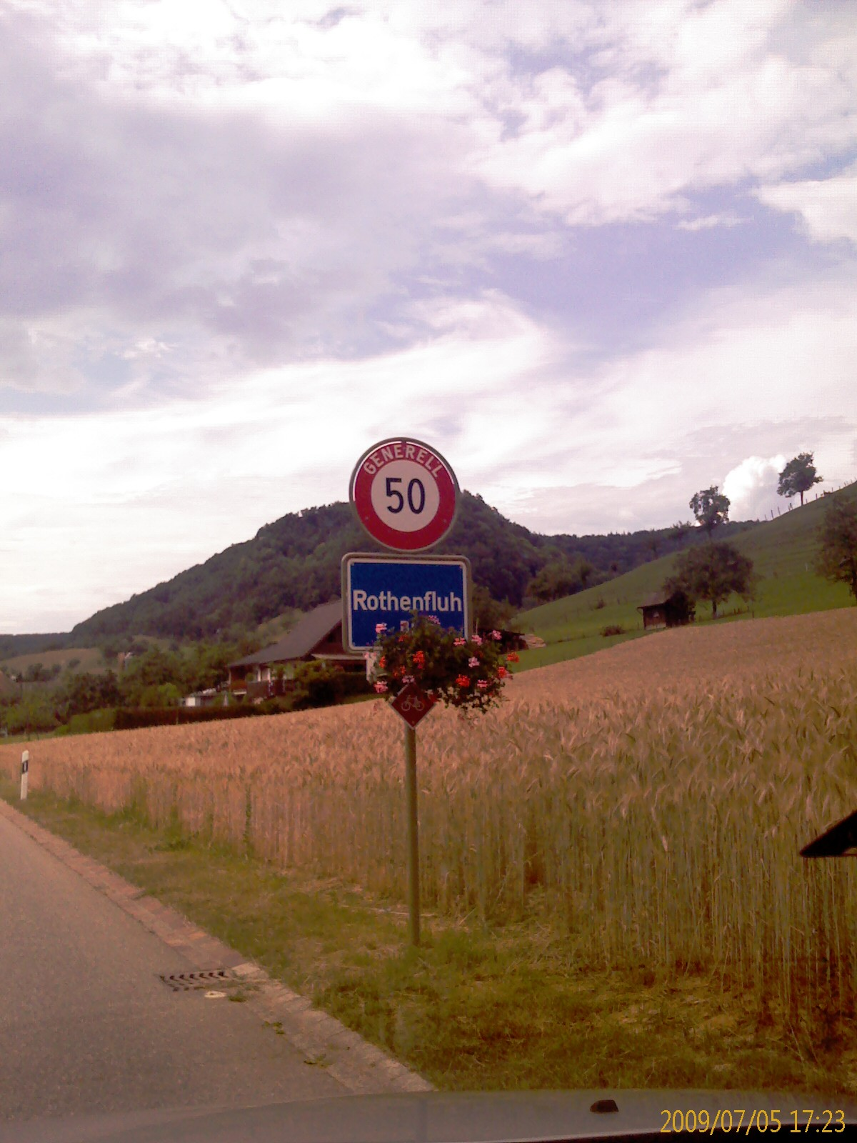 Village Entry of Rothenfluh, canton of Basel-Country, SwitzerlandEsperanto: Vilaĝenirejo de Rothenfluh, Kantono Bazelo Kampara, Svislando